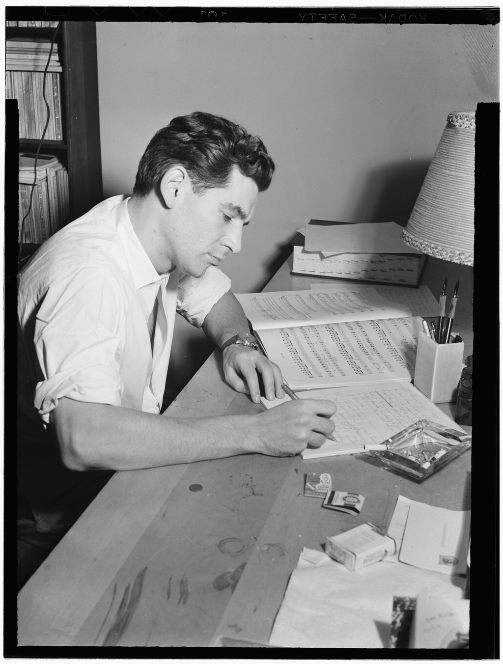 Gottlieb, William P., 1917-, photographer. [Portrait of Leonard Bernstein in his apartment, New York, N.Y., between 1946 and 1948] 1 negative : b&w ; 3 1/4 x 4 1/4 in. Notes: Gottlieb Collection Assignment No. 028 Reference print available in Music Division, Library of Congress. Purchase William P. Gottlieb Forms part of: William P. Gottlieb Collection (Library of Congress). Subjects: Bernstein, Leonard, 1918- Conductors (Music)--1940-1950. Composers--1940-1950. Format: Portrait photographs--1940-1950. Film negatives--1940-1950. Rights Info: Mr. Gottlieb has dedicated these works to the public domain, but rights of privacy and publicity may apply. Repository: (negative) Library of Congress, Prints & Photographs Division, Washington D.C. 20540 USA, (reference print) Library of Congress, Music Division, Washington D.C. 20540 USA, Part Of: William P. Gottlieb Collection (DLC) 99-401005 General information about the Gottlieb Collection is available at Persistent URL: Call Number: LC-GLB13- 0066 This work is from the William P. Gottlieb collection at the Library of Congress. Rights and restrictions. In accordance with the wishes of William Gottlieb, the photographs in this collection entered into the public domain on February 16, 2010.